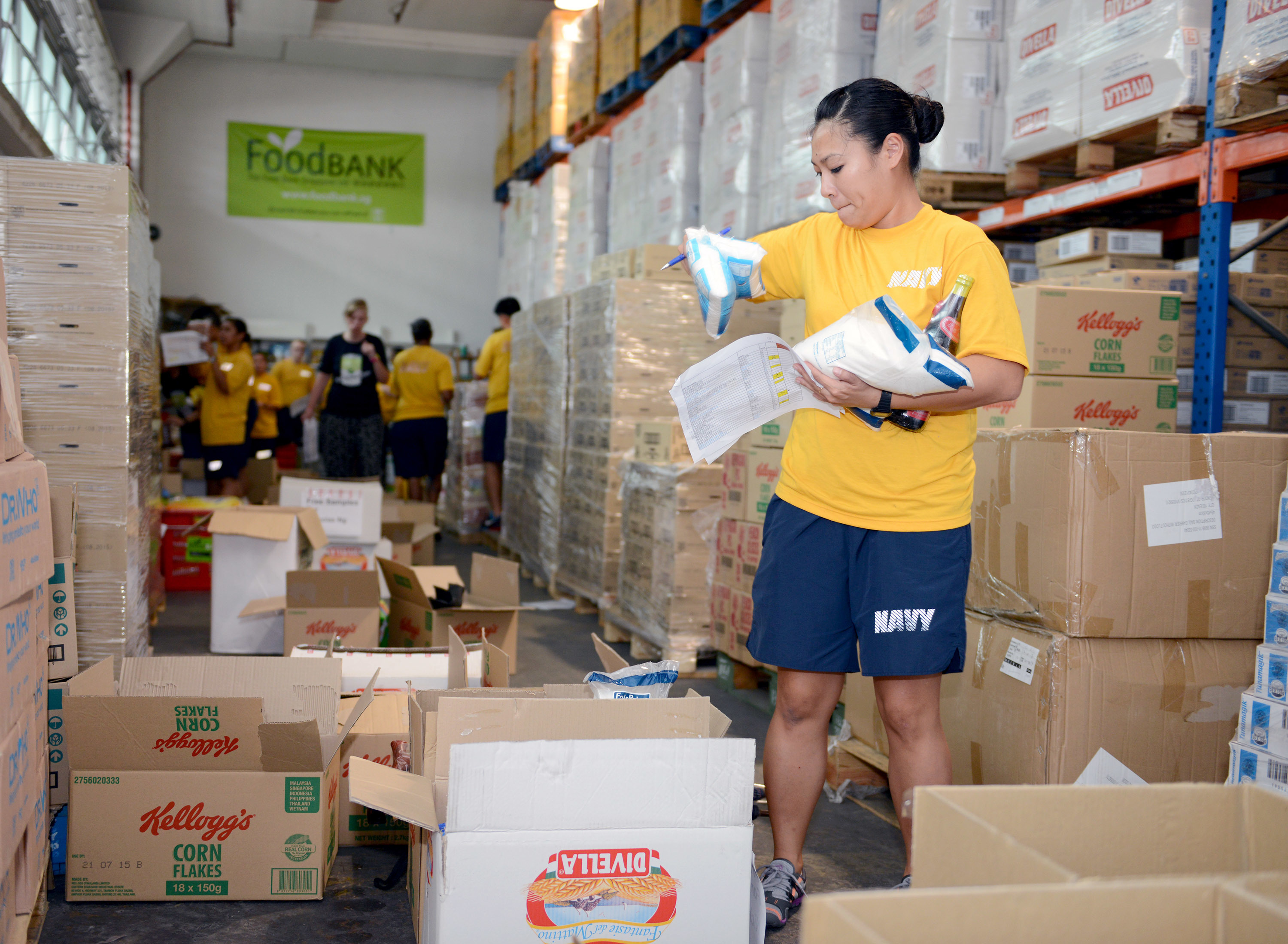 Information Systems Technician 2nd Class Jin Choe, assigned to Naval Computer and Telecommunications Station Far East, helps sort food during a community service project held at The Food Bank Singapore. Thirteen Sailors volunteered to sort dry goods, oils, condiments, baby food and juices for distribution across the island nation. (U.S. Navy photo by Mass Communication Specialist 1st Class Jay C. Pugh/Released) Unit: Navy Media Content Services DVIDS Tags: Singapore; U.S. Navy; NCTS Far East